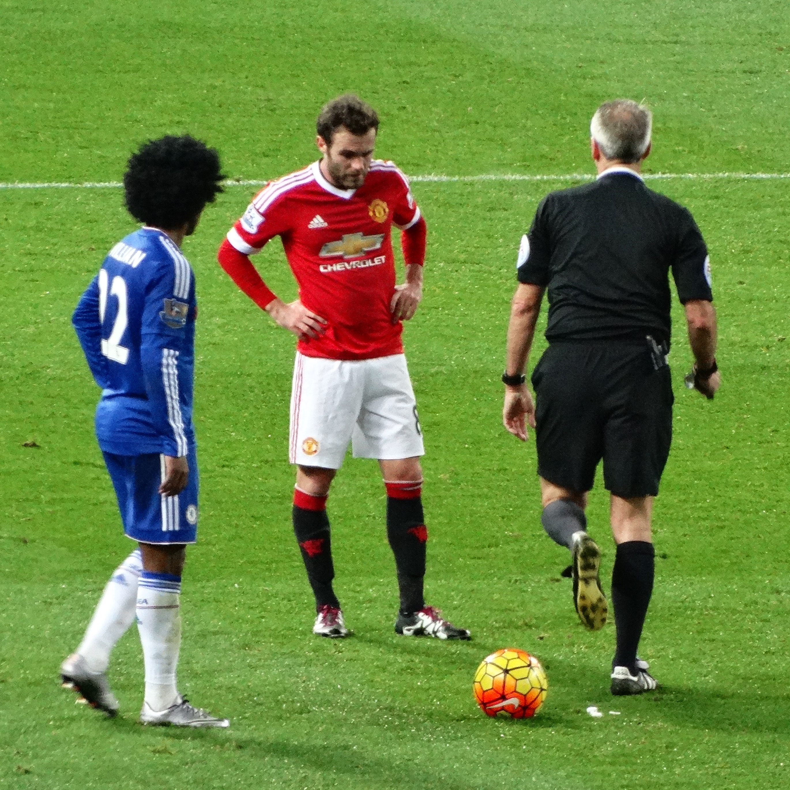 Man Utd 0 Chelsea 0